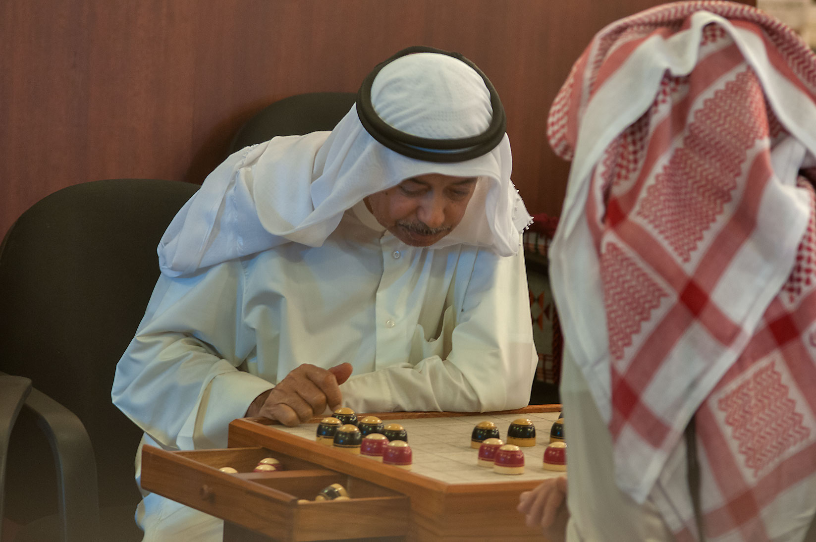 Qataris playing the traditional board game of Damah in Souq Waqif, Doha.